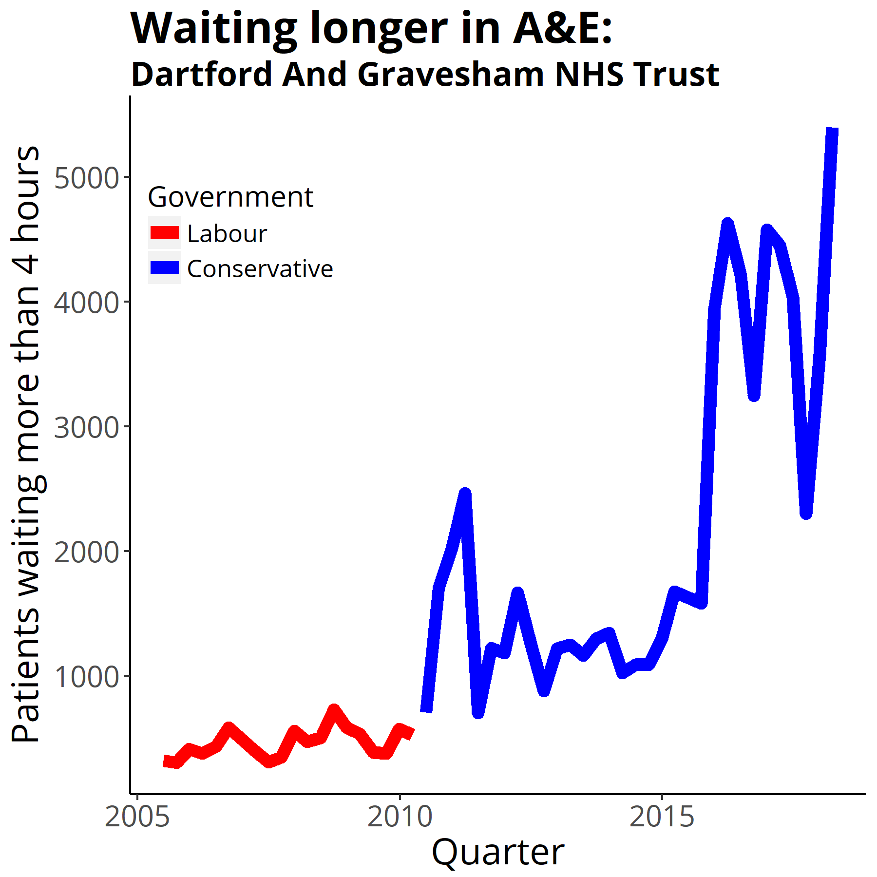 Four-hour target in the emergency department quarterly figures from NHS England Data from